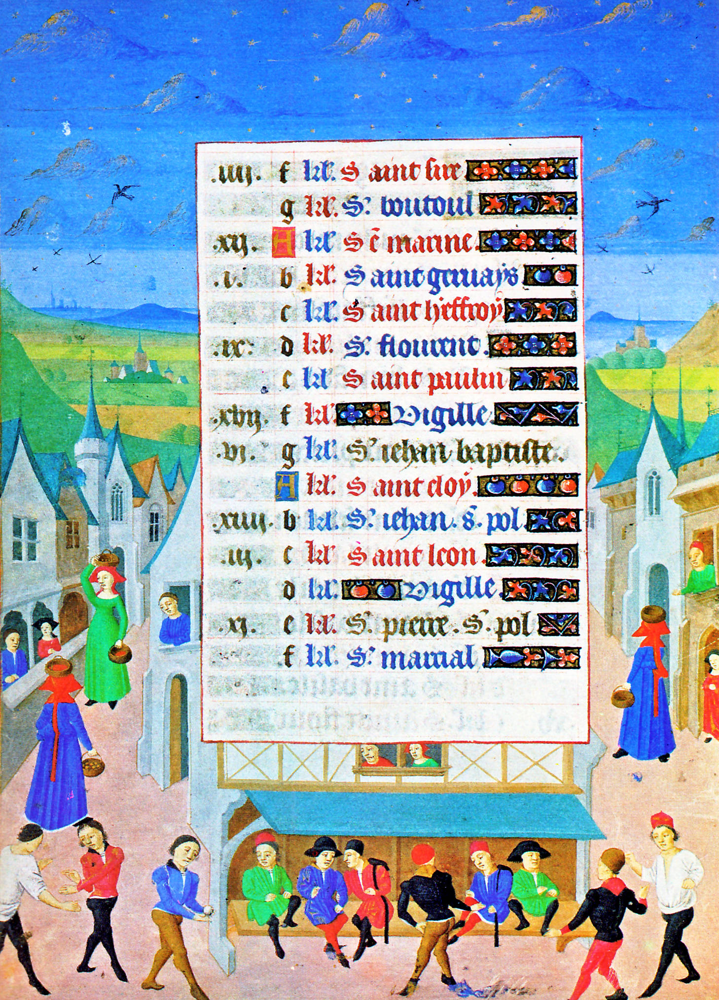 Depiction of Tennis in a French Book of Hours